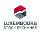 Luxembourg Stock Exchange 2016 logo